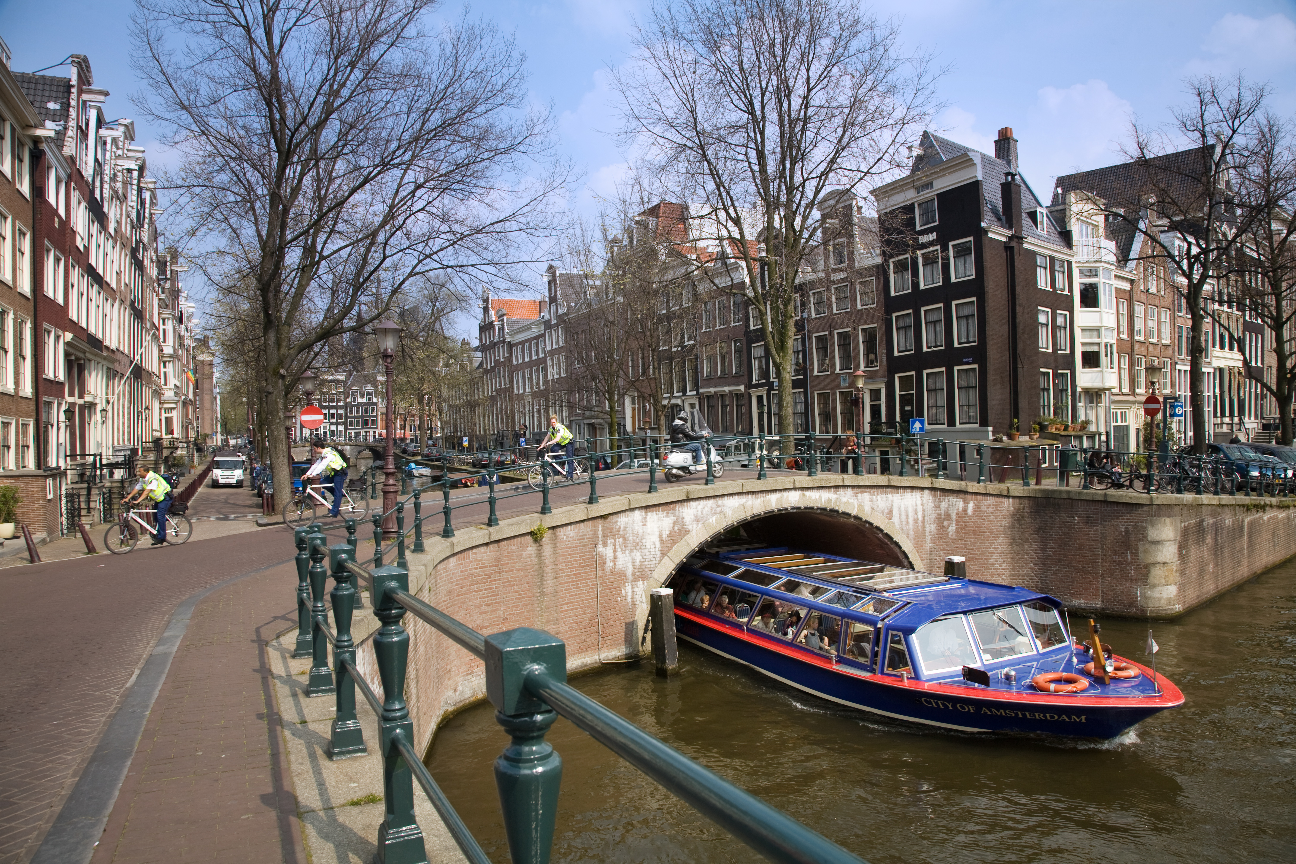 Keizersgracht, Amsterdam, The Netherlands